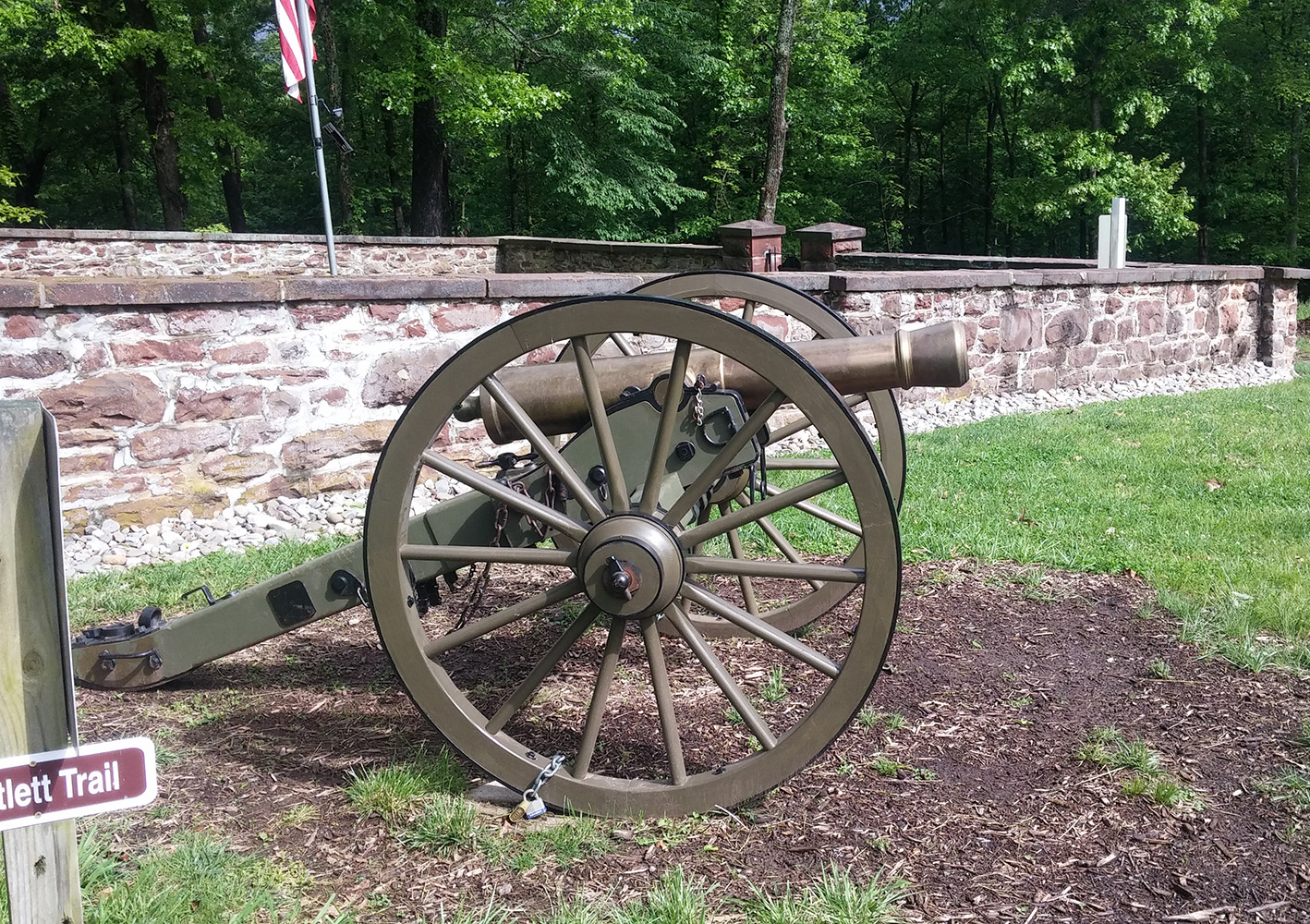 Balls Bluff battlefield, James cannon (1st Rhode Island, battery B)